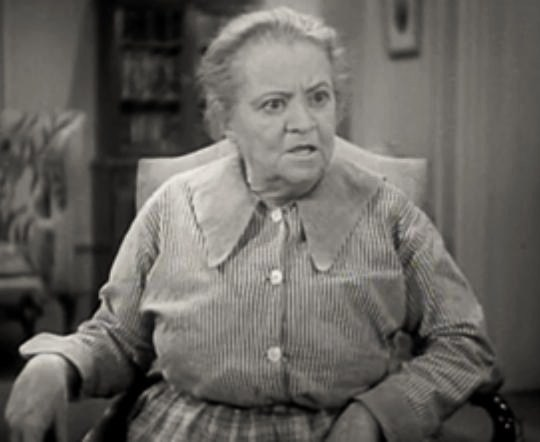 Aggie Herring in The Dark Hour (1936) - cropped screenshot